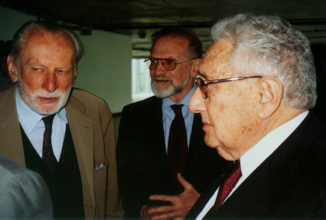 Jacek Woźniakowski (1920-2012), Polish publicist, essayist, and journalist, Bronisław Geremek (1932-2008), Polish historian and politician, and Henry Kissinger (b. 1923), American politician, Nobel Prize laureat